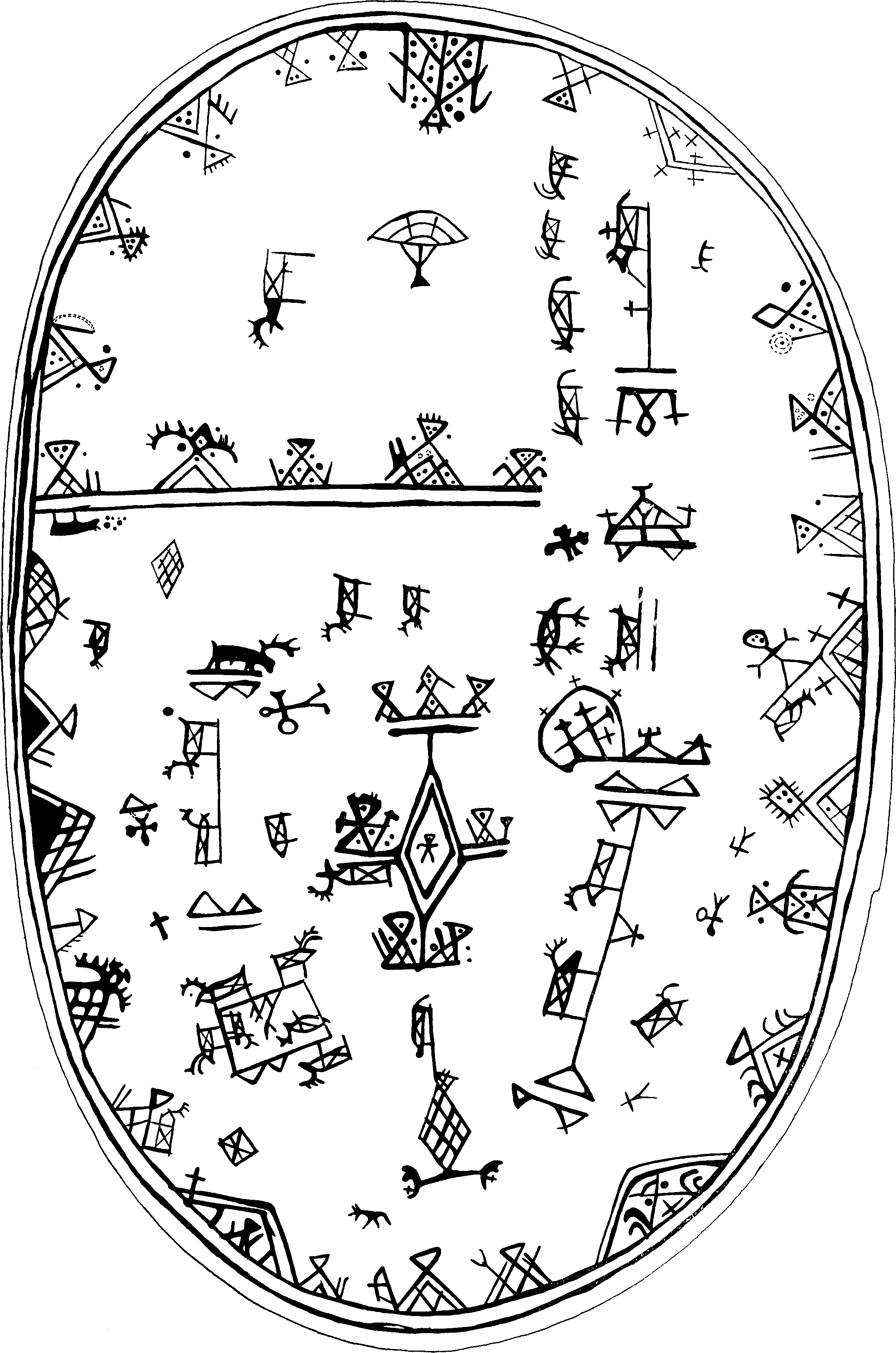 Sami drum, probably from southern sami region. Frame drum. 56 x 37 cm. No 17 in Ernst Manker's Die lappische Zaubertrommel (1938/1950). Accuired by Klemm for Museum für Völkerkunde, Leipzig between 1844 and 1867. Now at Museum für Völkerkunde, Leipzig